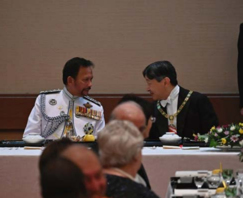 Court Banquets after the Ceremony of the Enthronement. Sultan Bolkiah of Brunei is sitting next to Emperor Naruhito.